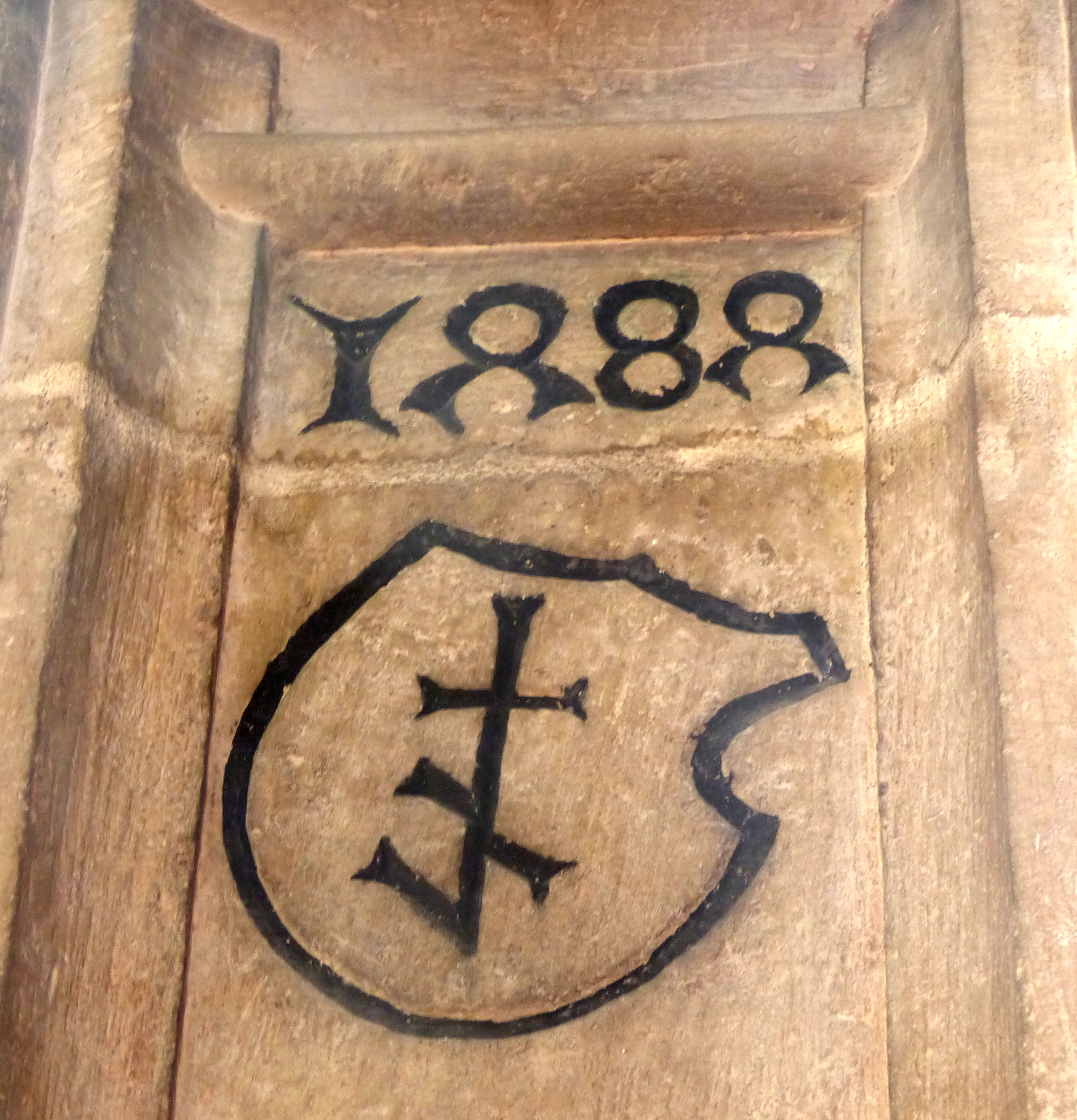 Freistadt ( Upper Austria ). Our Lady church - Gothic sanctuary light ( 1484 ) by Mathes Klayndl: Date with house sign of Wolfgang Horner, mayor of Freistadt.